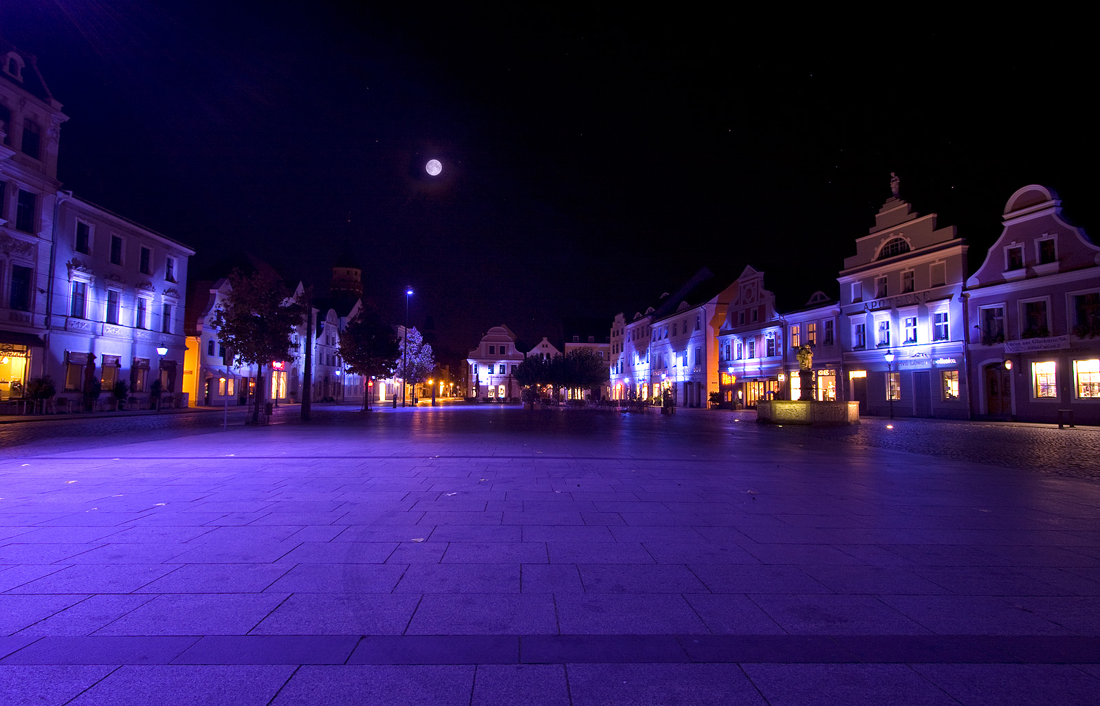 The Altmarkt in Cottbus with special blueish lightbulbs during the Cottbuser Filmfestival